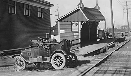 Collingwood Station [on the B.C.E.R.] Central Park line. - [193-?] Item Number CVA 677-386 Record Type Private records Description Level item Private Records # Add. MSS. 336 [Finding Aid] Part Of Fonds Vancouver Museums and Planetarium Association fonds [Description] Part of Series Collected photographs Part of Subseries Miscellaneous photographs Physical Description 1 photograph: silver gelatin print; 9 x 15 cm Scope and Content Photograph shows an automobile parked next to the station platform. Numbering Note Vancouver Museum number H-900 Photo Geo Location South Vancouver (B.C.) Photograph Subjects Railroads - Stations | Automobiles Copyright Status Public domain